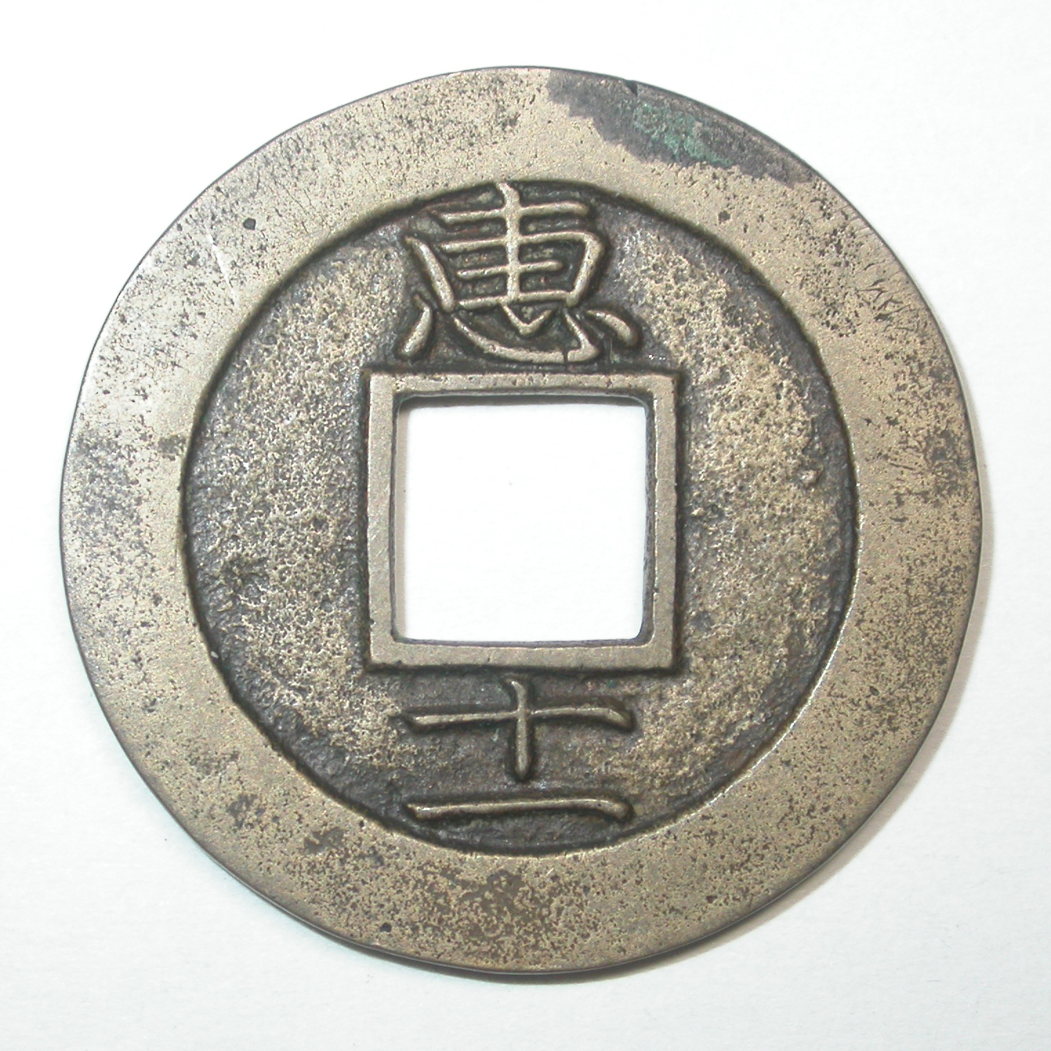 Sangpyeongtongbo